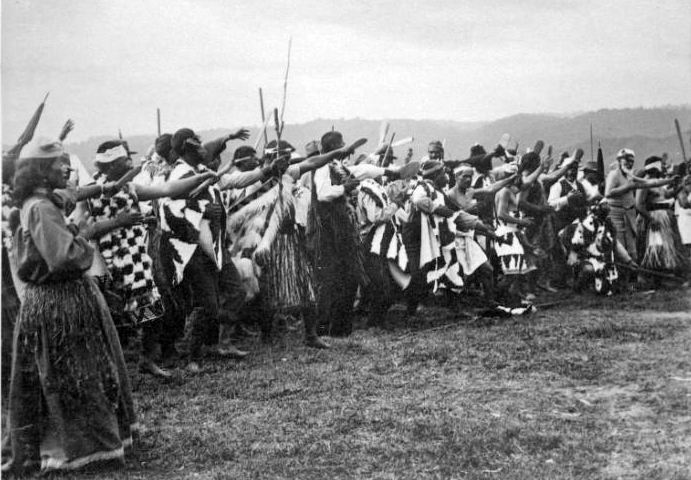 Group of Maori men and women performing a haka in Ruatoki during the visit of Lord Ranfurly and party, photographed in March 1904 by Malcolm Ross.